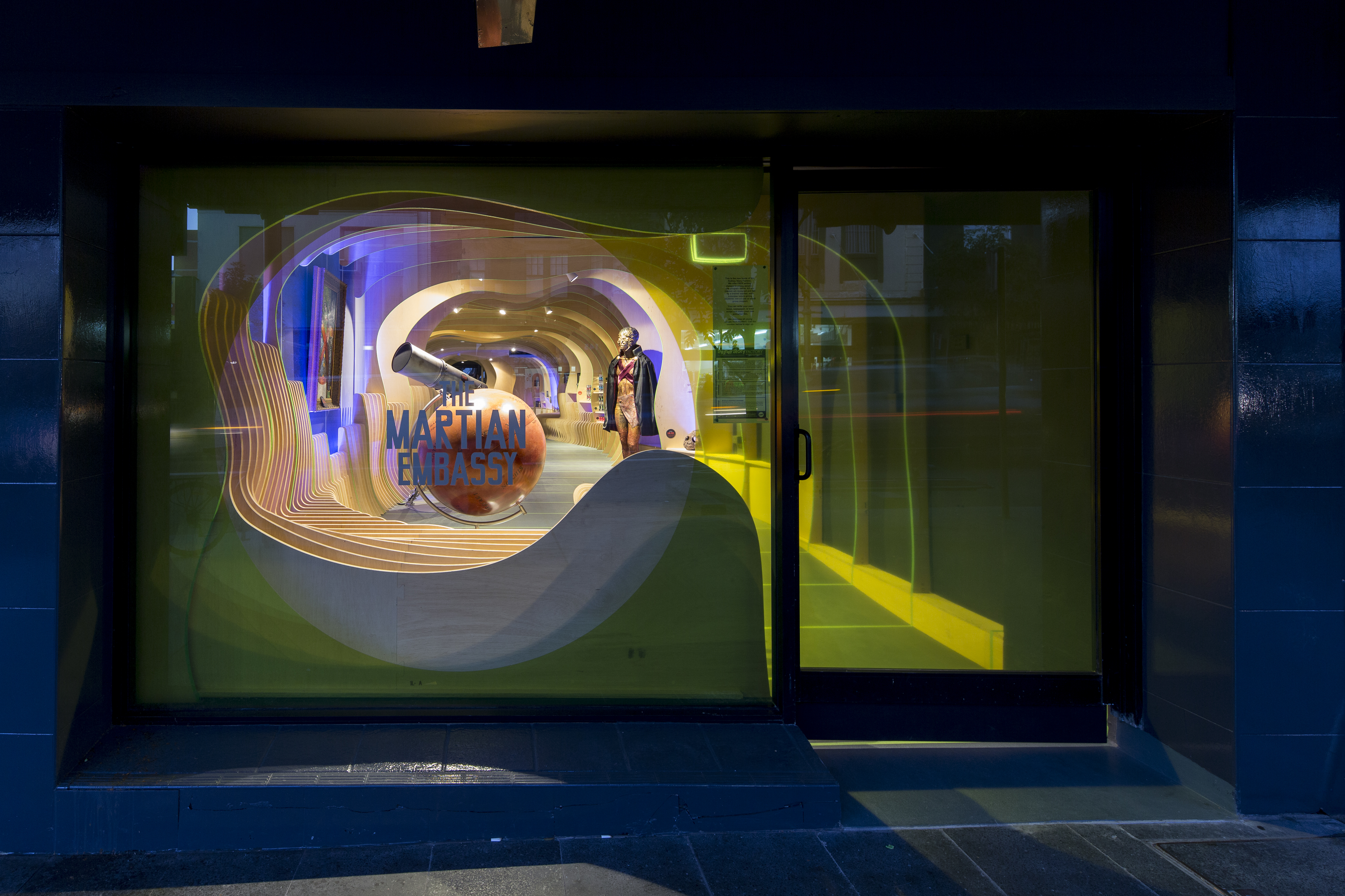 Exterior of Redfern location of Story Factory, The Martian Embassy.